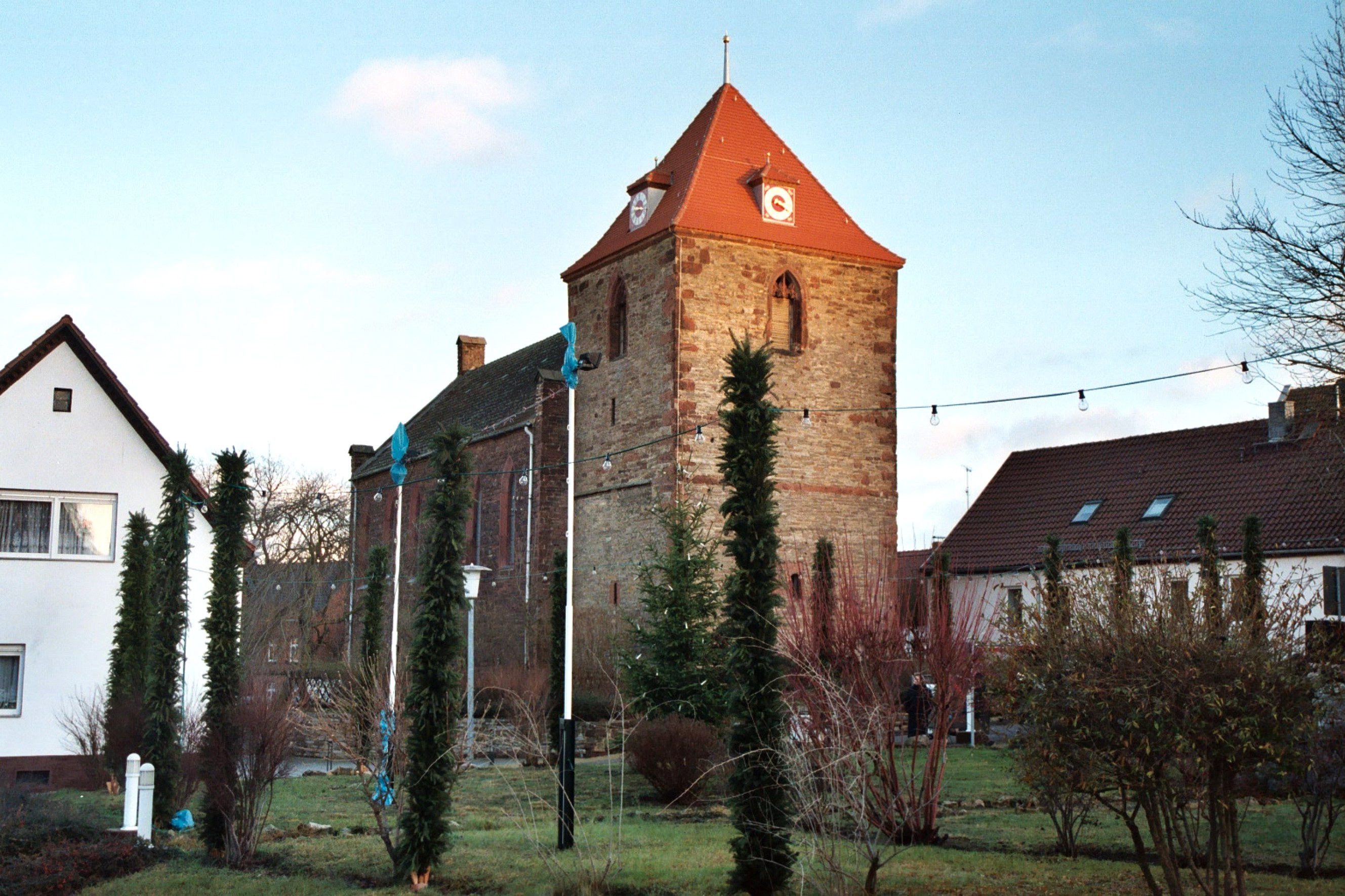 Wolferode (Lutherstadt Eisleben), the village church St. Cyriacus